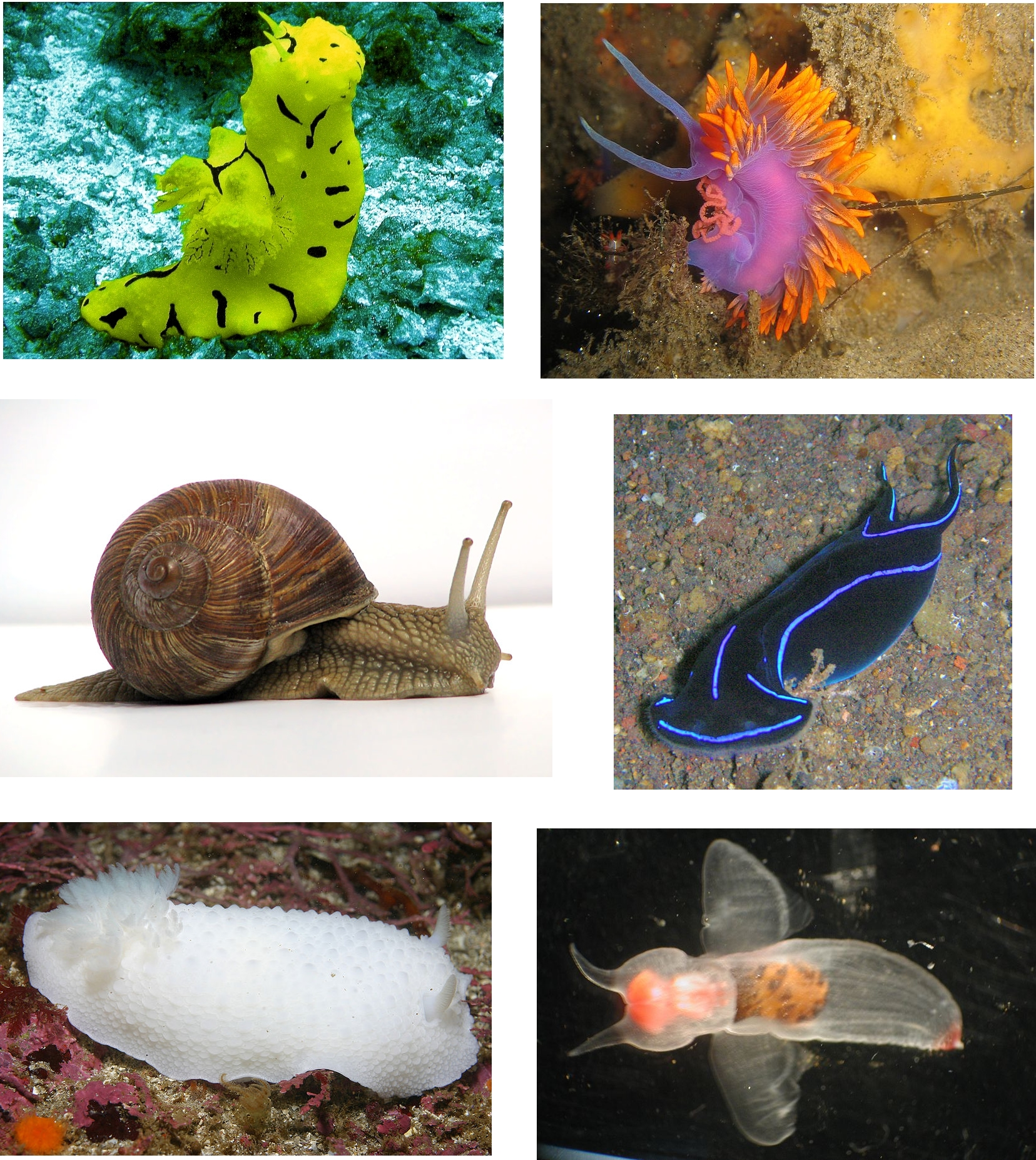 Composite of various Heterobranchia: Notodoris minor, Spanish Shawl, Grapevine snail, Chelidonura varians, Doris odhneri, and Sea Angel.